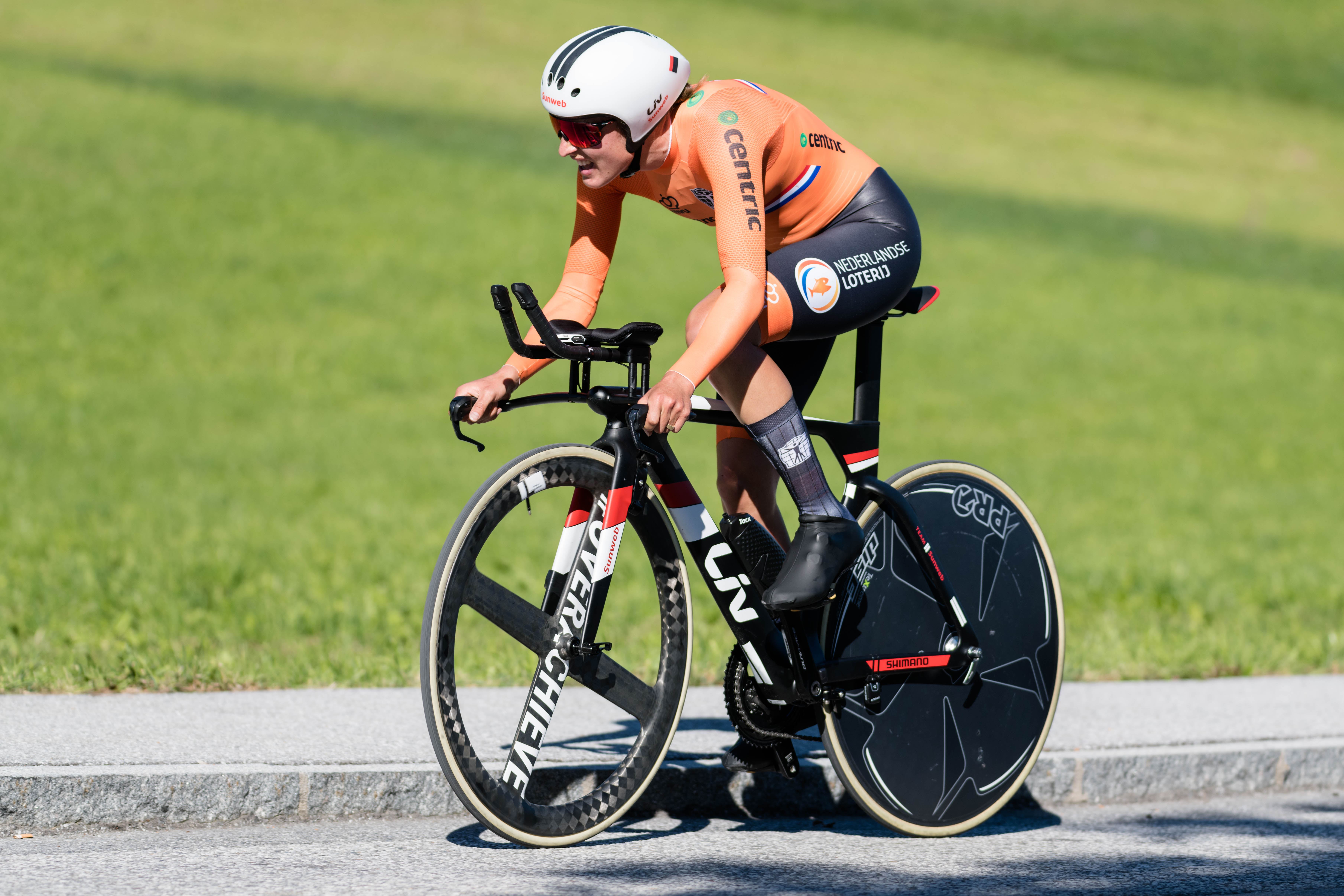 2018 UCI Road World Championships Innsbruck/Tirol Women Elite Individual Time Trial. Picture shows: Lucinda Brand of the Netherlands